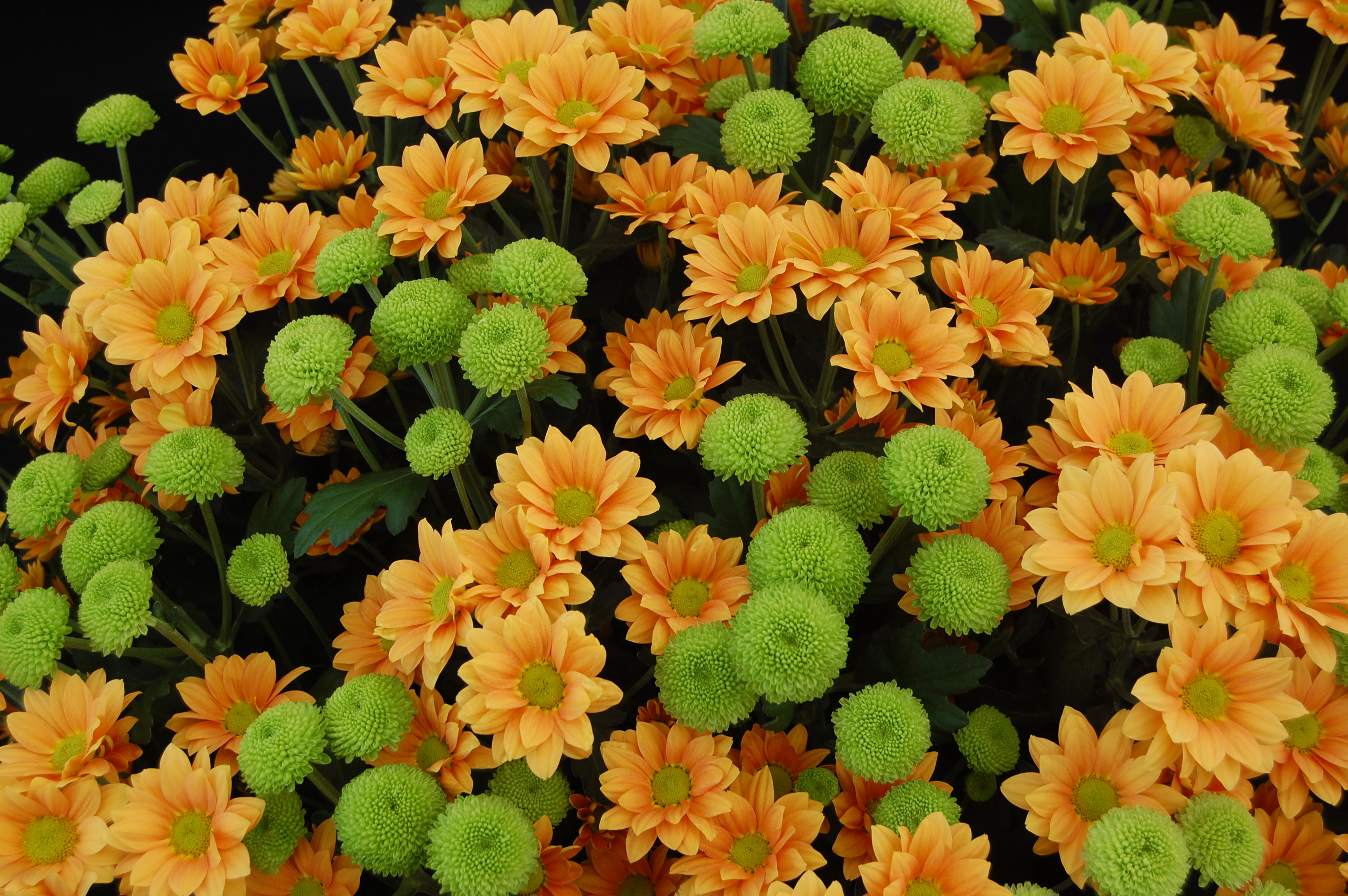 Chrysanthemum 'Enbee Wedding Golden' and 'Feeling Green', displayed at Gardeners' World Live.